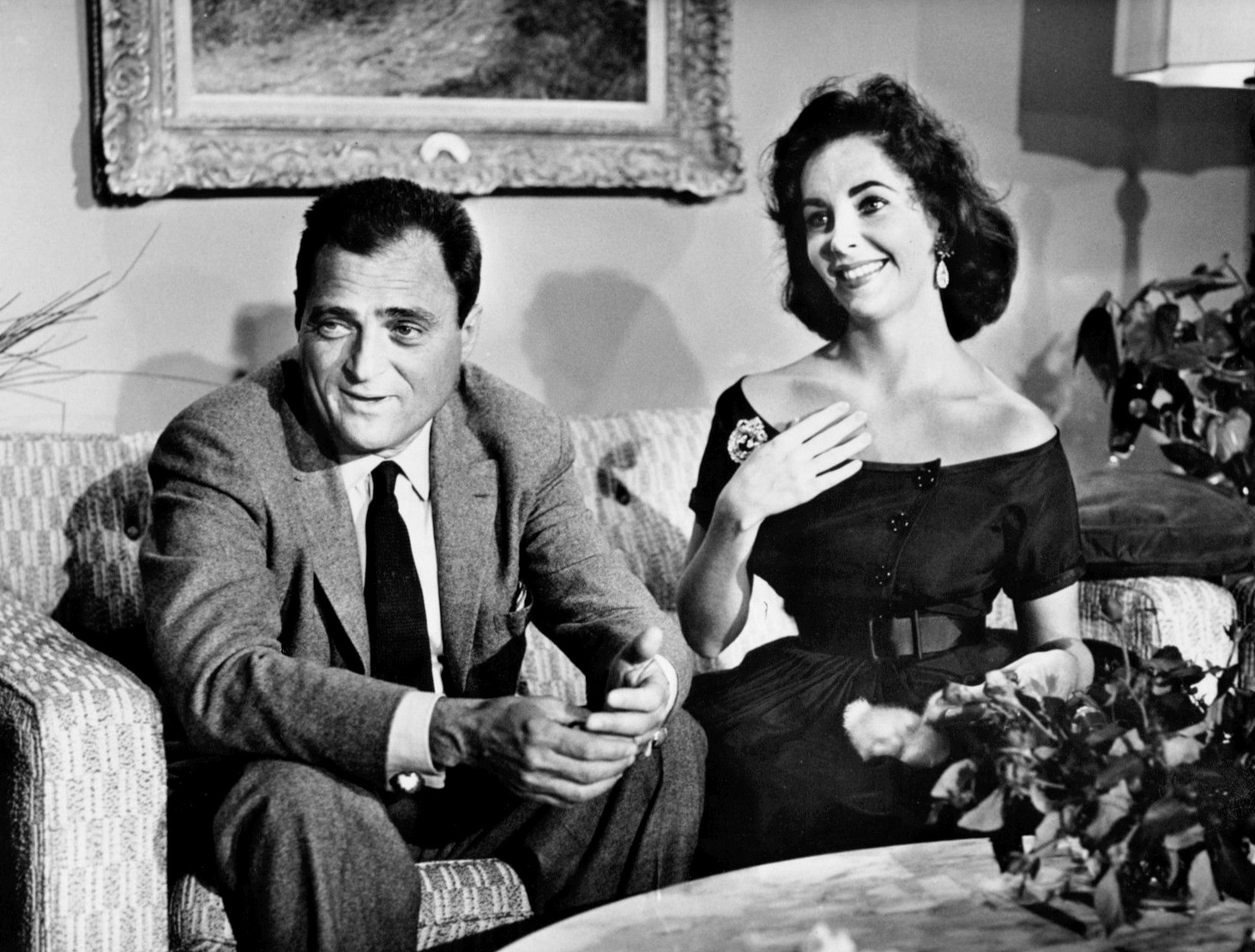 Photo of Mike Todd and Elizabeth Taylor from the anniversary party for the film Around the World in 80 Days. CBS paid Mike Todd for the rights to cover the birthday celebration as a live television special. He and Taylor are seen at home in a film clip used for the coverage.